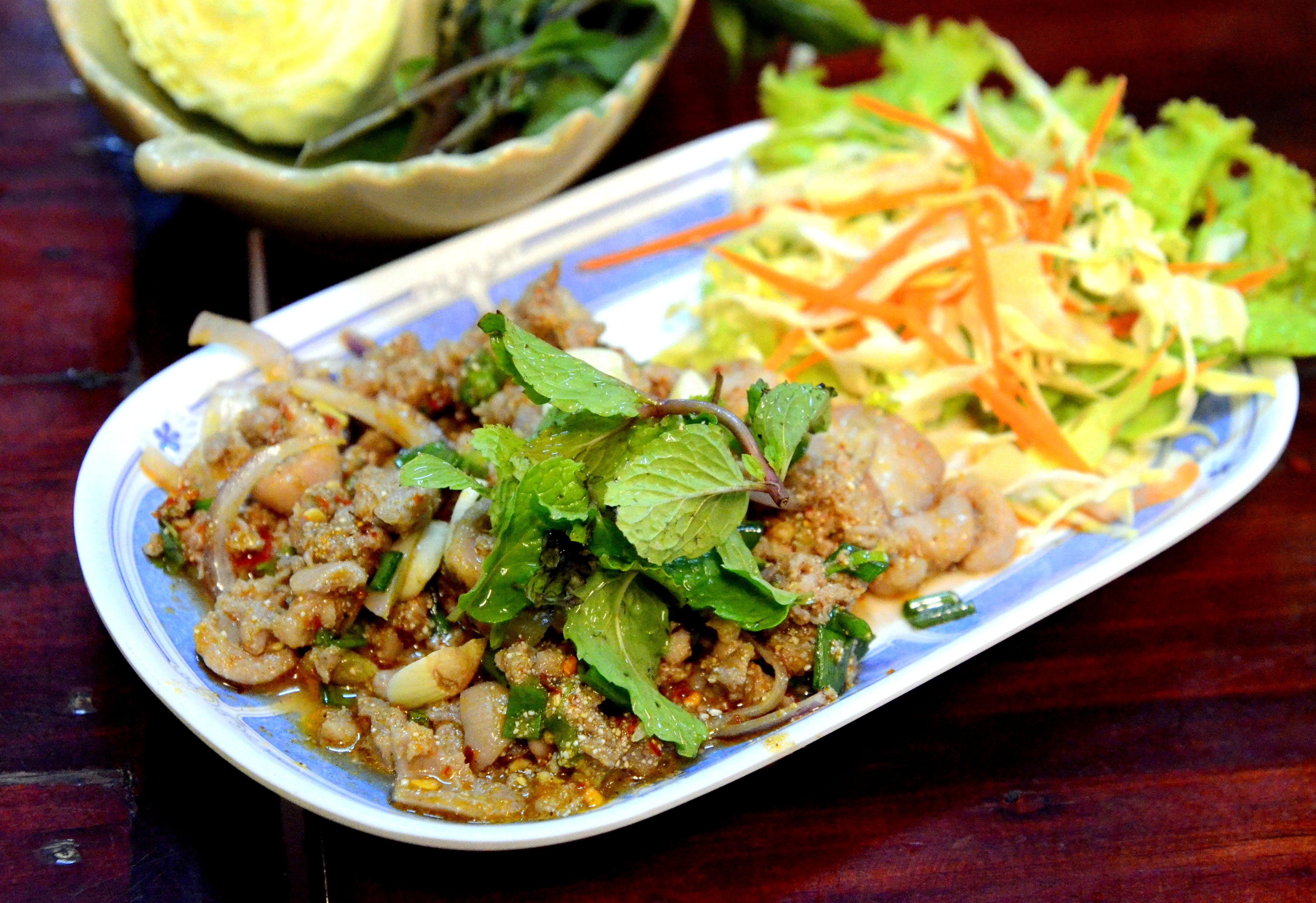 Lap pet (Thai script: ลาบเป็ด): "Lap" style salad made with duck.